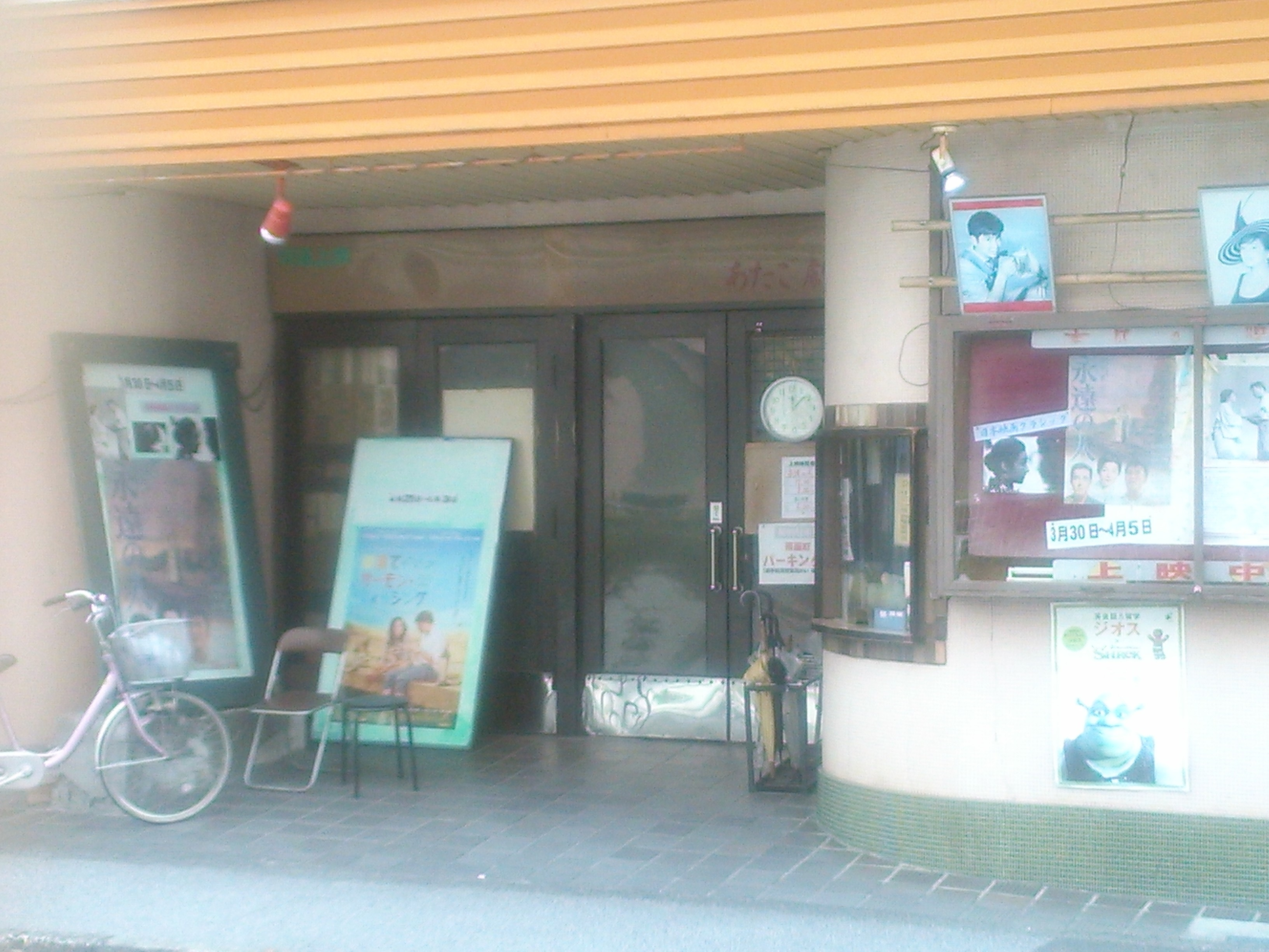 高知市の映画館「あたご劇場」。